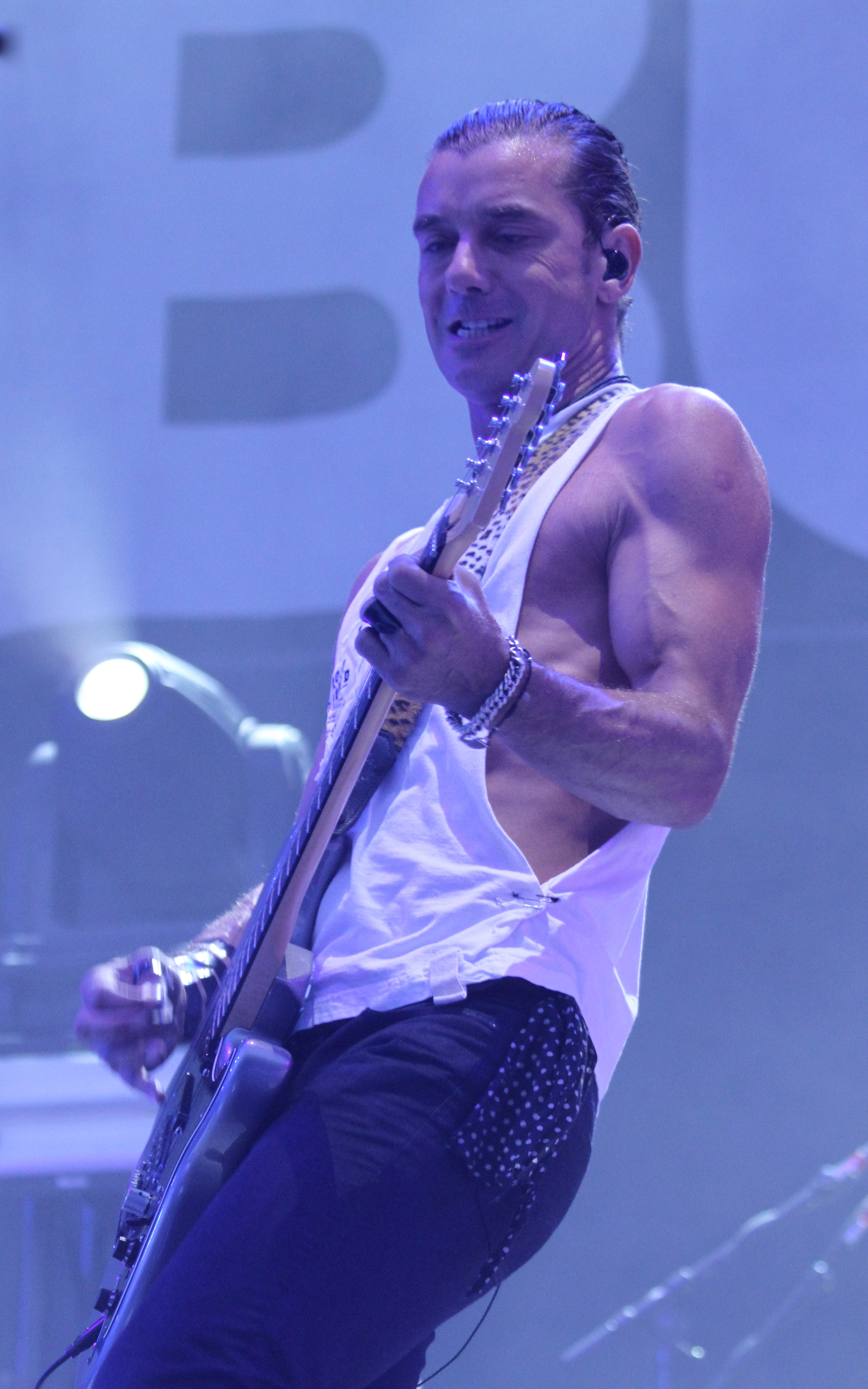 Posted via email from Globalite Magazine